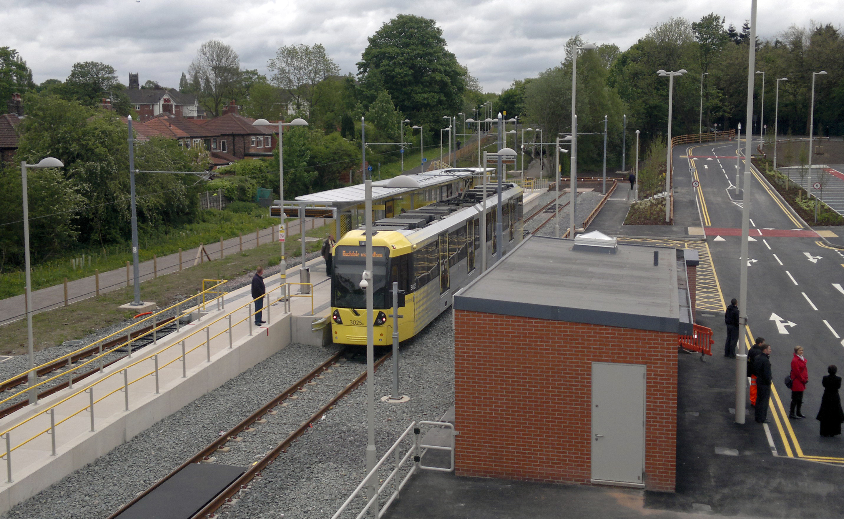 East Didsbury Metrolink station, seen here on its opening day.